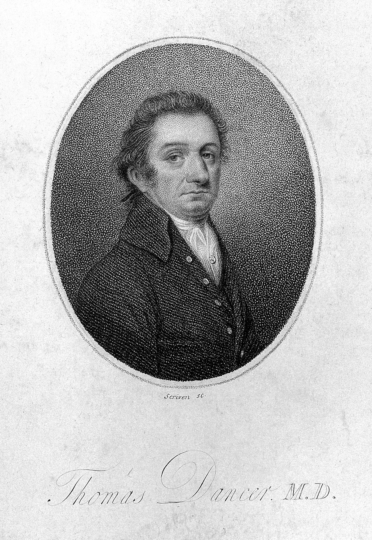 Frontispiece portrait of Thomas Dancer. Rare Books Keywords: medical assistant